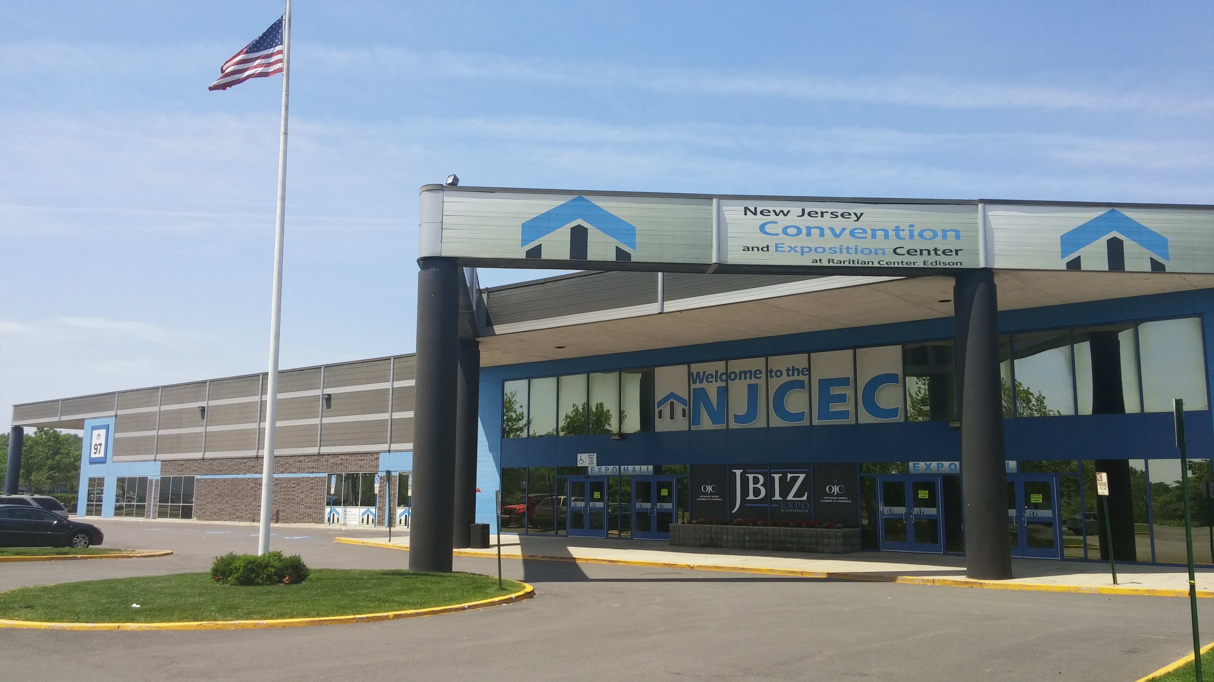 Entrance at 2016 J Biz Expo